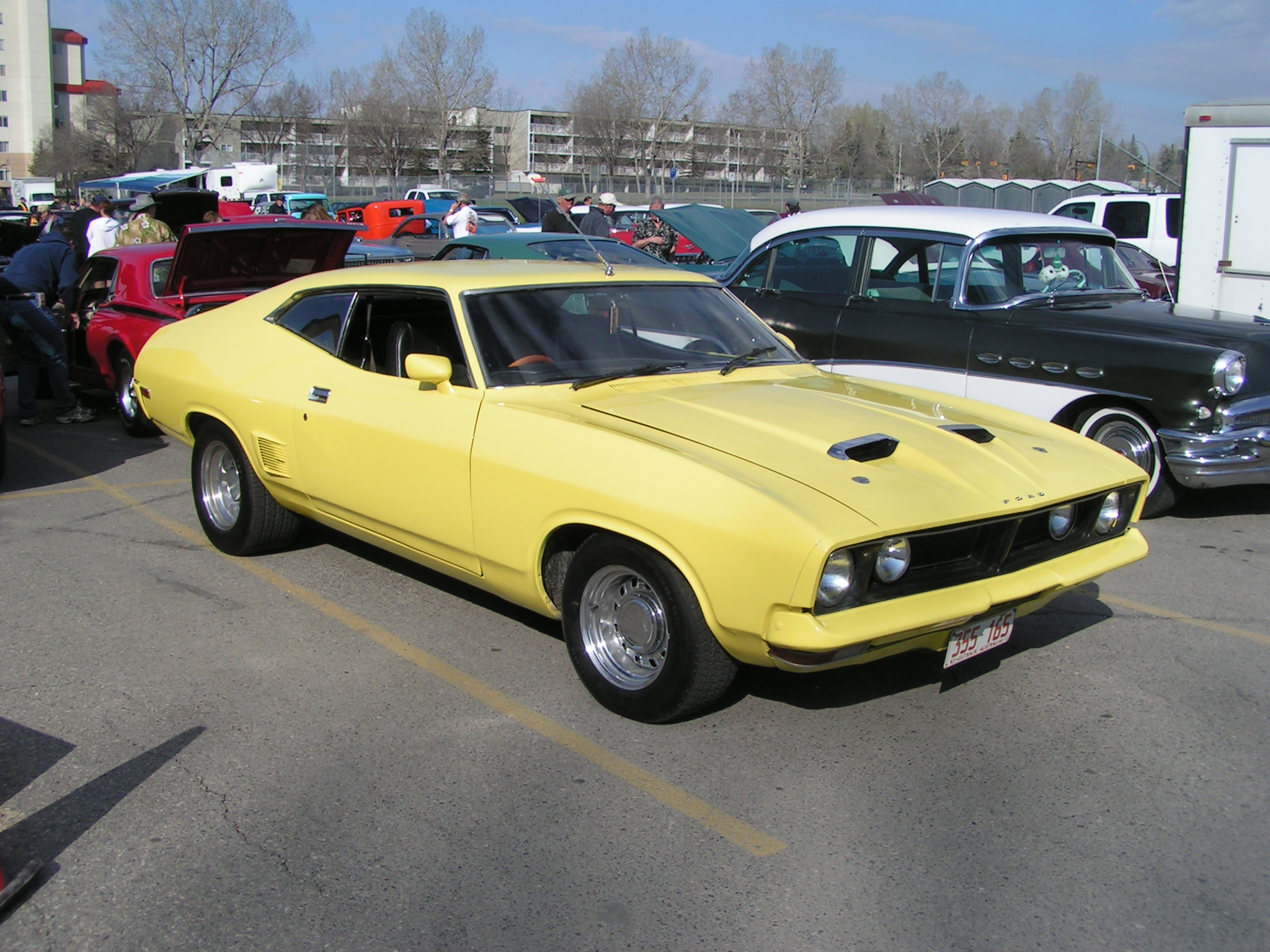 1976 Ford XB Falcon Hardtop